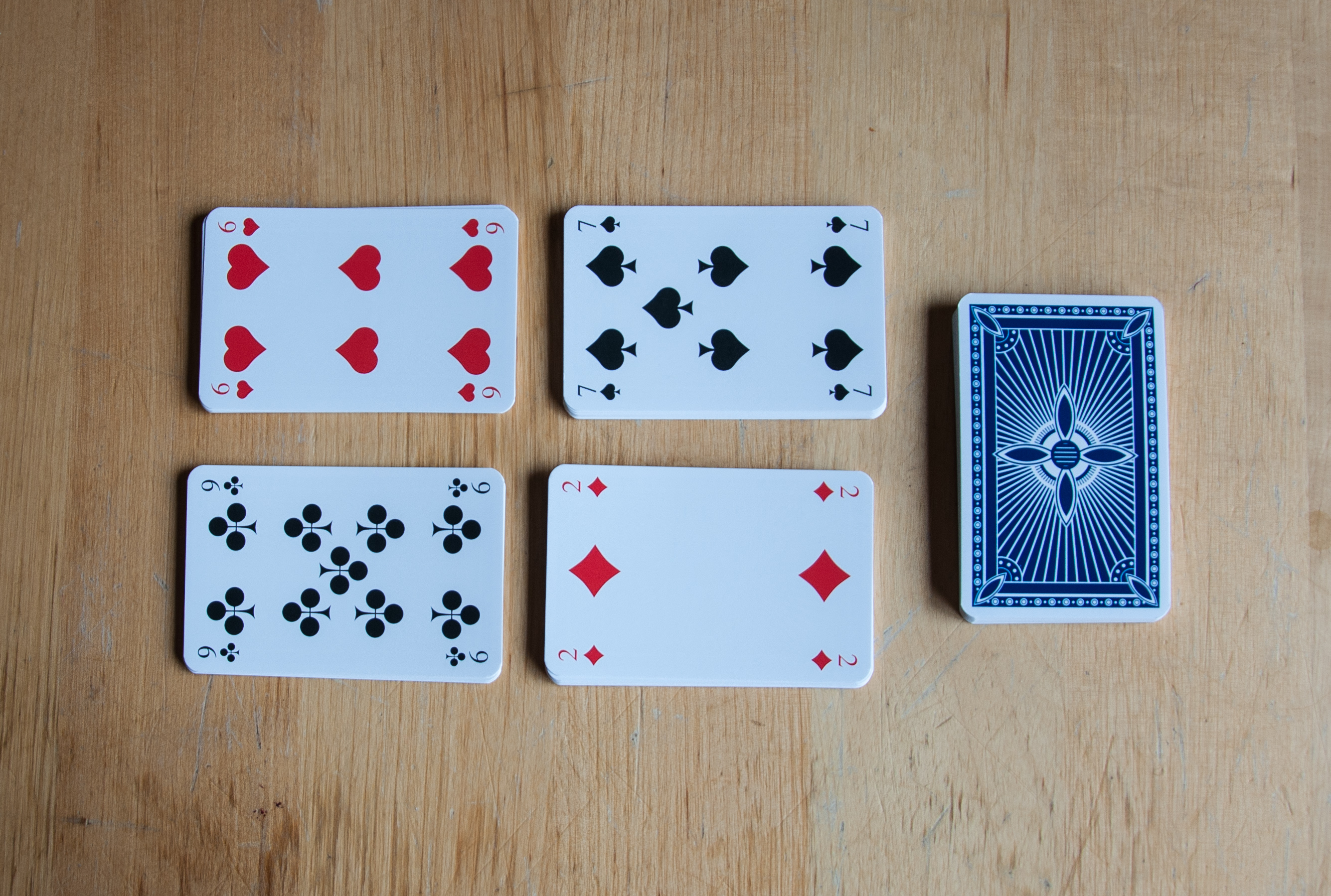 Patience The Square